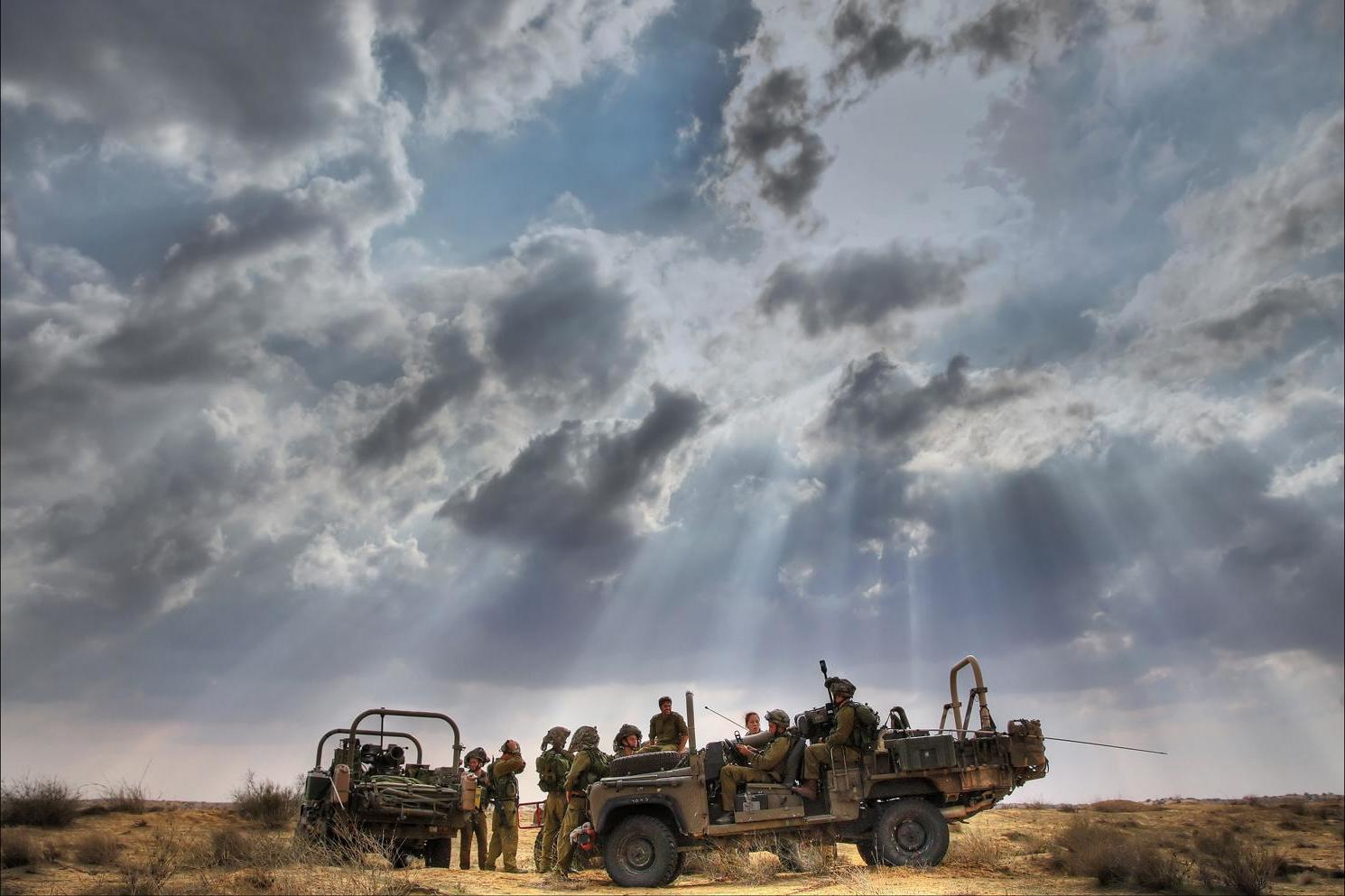 Maglan commandos training with their vehicles. The Maglan unit (212) is a commando unit whose mission is to operate deep in enemy territory while focusing on attacking and destroying specific targets and gathering accurate intelligence. Maglan was established in June 1986 as an elite unit specializing in anti-tank warfare using advanced weapons. It is a part of the Commando Brigade.